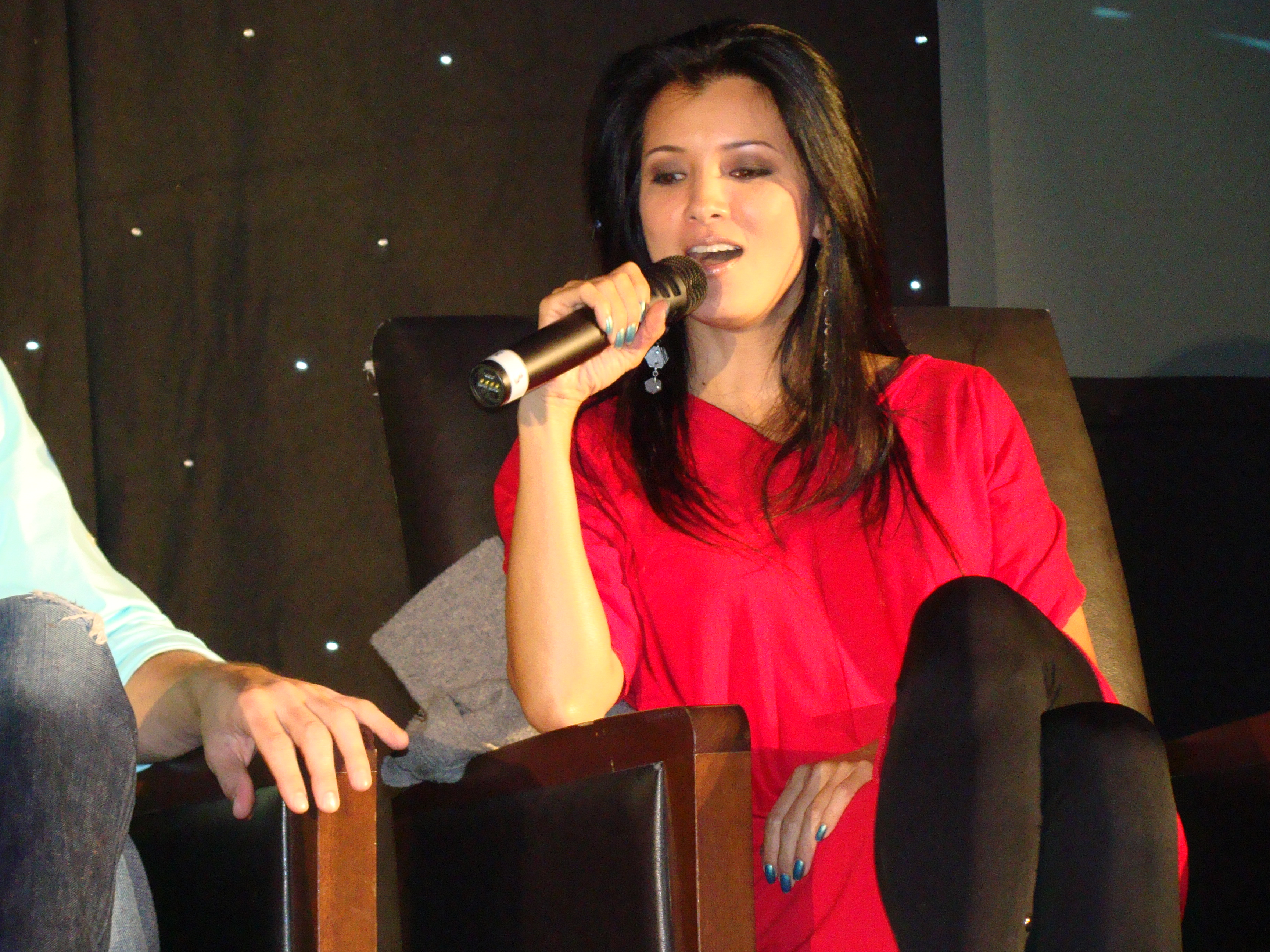 Kelly Hu